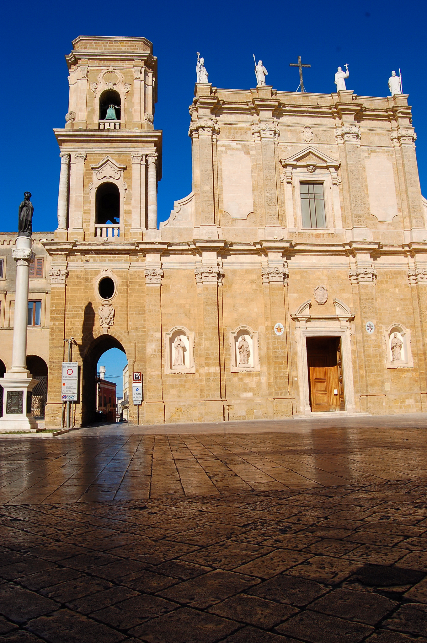 Brindisi - Cathedral